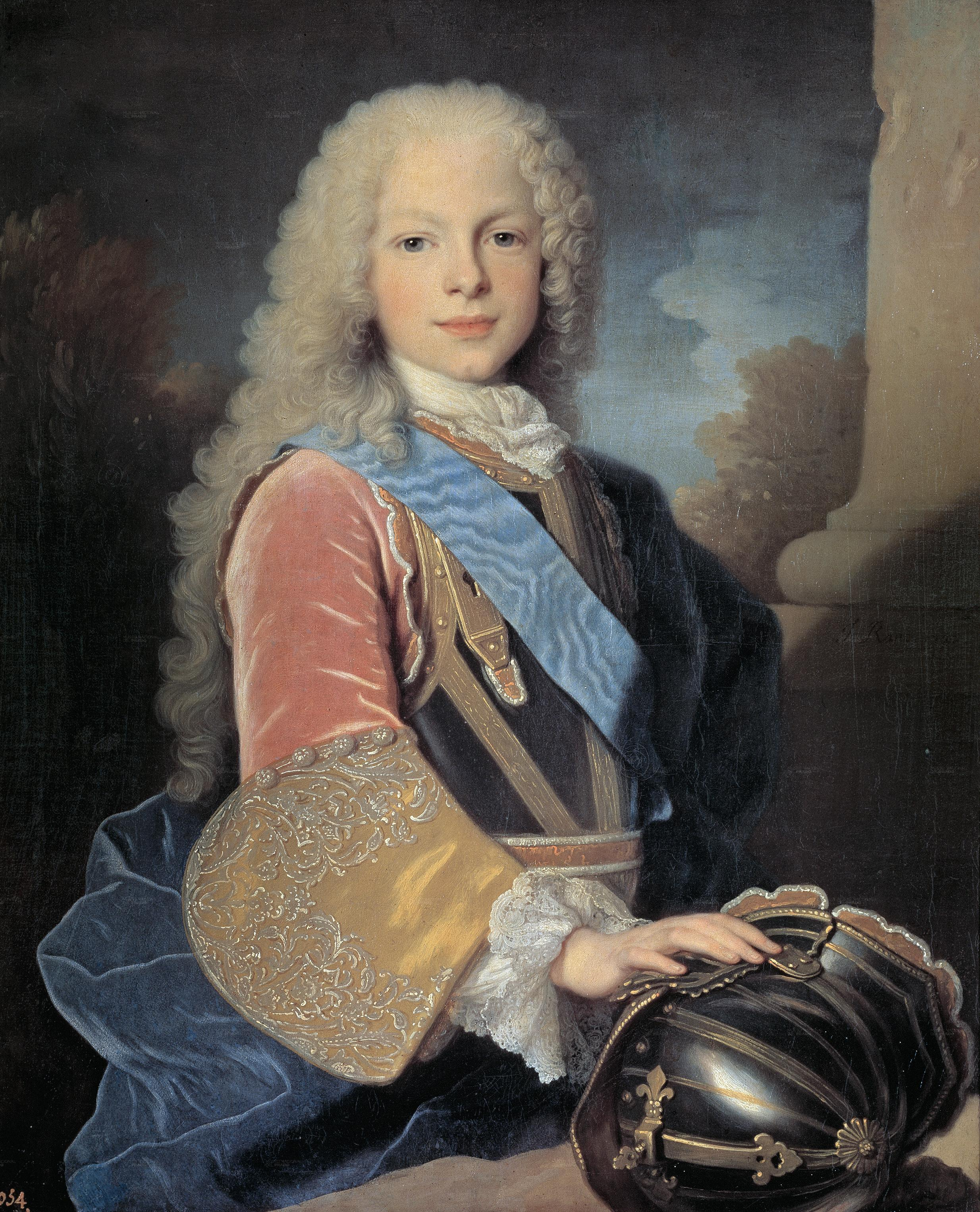 Ferdinand VI, (23 September 1713 – 10 August 1759), King of Spain from 1746 until his death, fourth son of Philip V, founder of the Spanish Bourbon dynasty (as opposed to the French Bourbons), by his first marriage with Maria Luisa of Savoy, was born at Madrid on 23 September 1713.